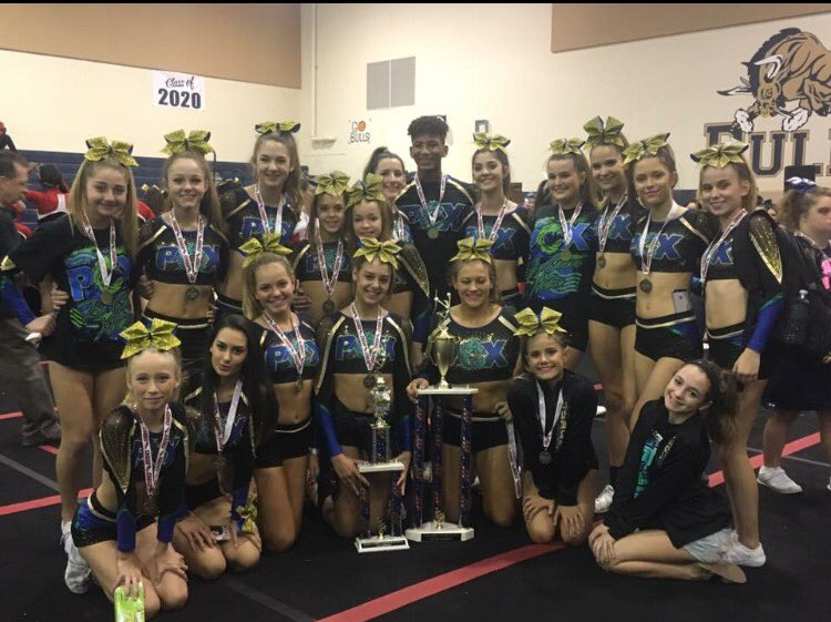 Kyla Deaver and your team in 2017.